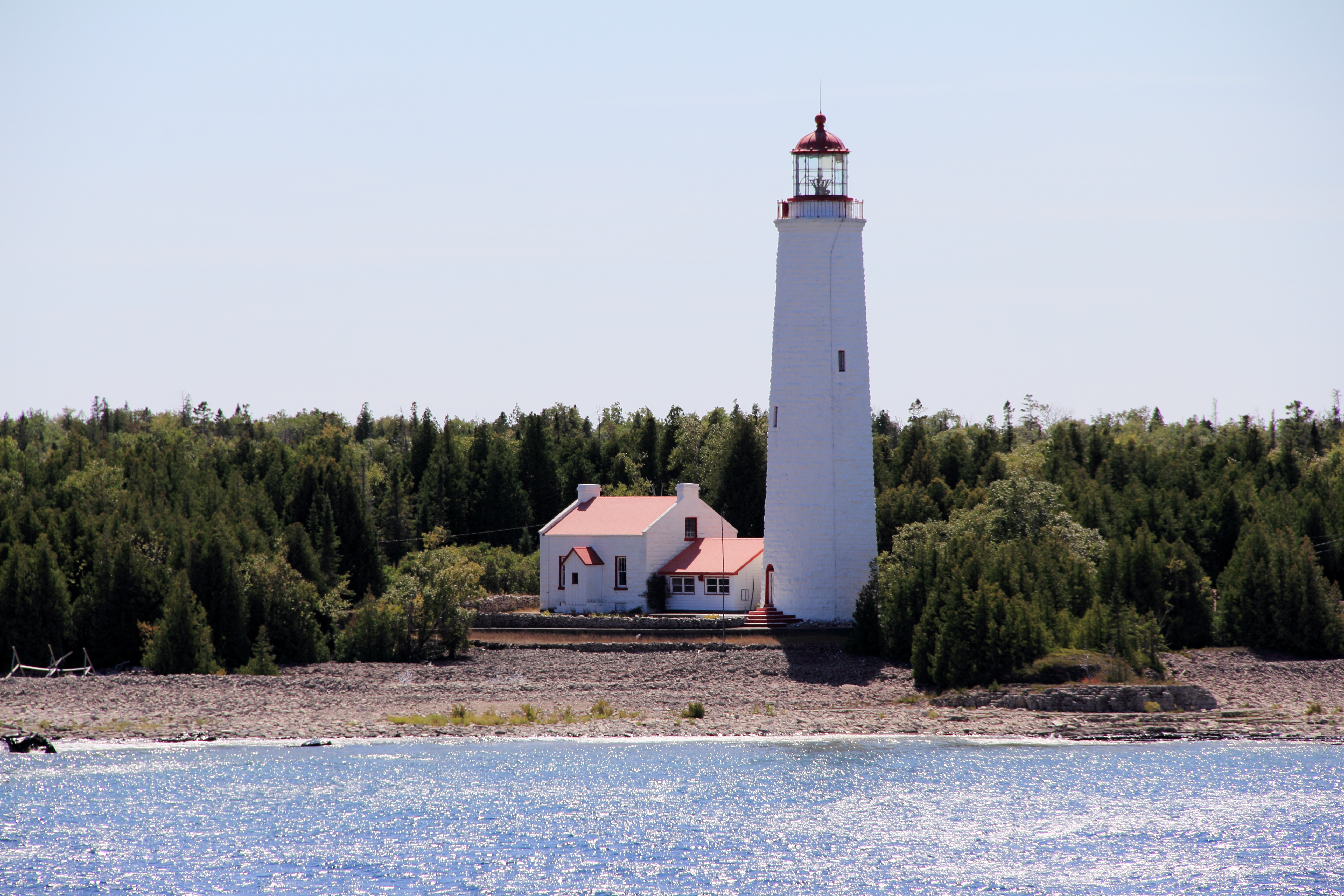 Lightstation Annex, Cove Island, Georgian Bay - Lake Huron